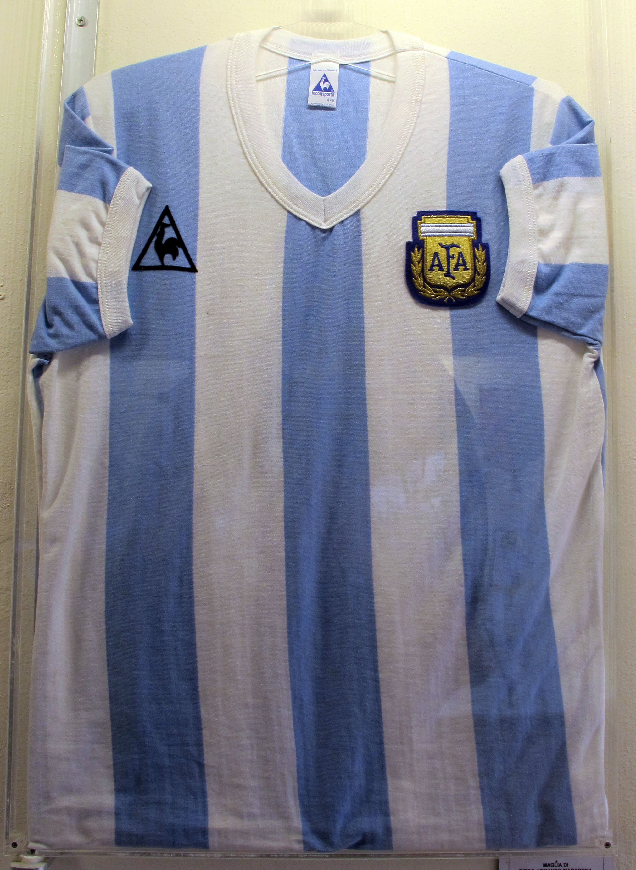 Collections of the Museo del Calcio (Florence)